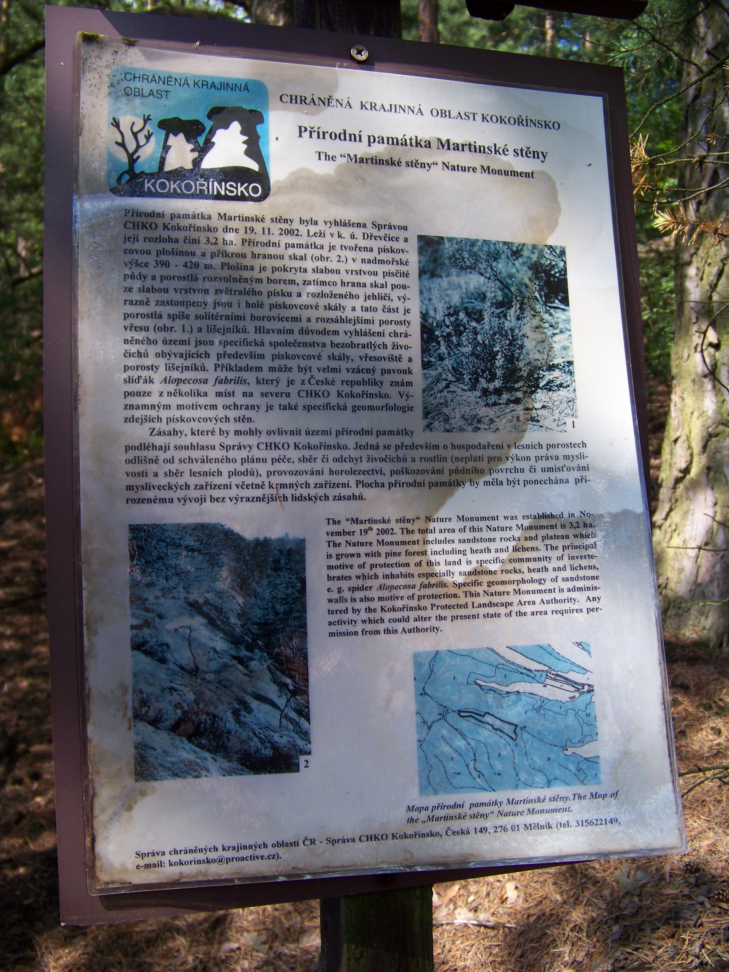 Martin Wall. Protected Landscape Area of Kokořínsko. (Cadastral area of Dřevčice, Česká Lípa District, Liberec Region, the Czech Republic.)